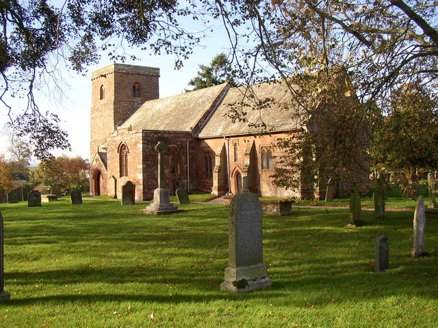 Church of St Margaret and St James, Long Marton The oldest parts of this church were built in the 11C, possibly Saxon - the nave with its enormous quoin stones, the south doorway with a tympanum carved with a winged quadruped, and a similar west doorway, although this also has typical Norman motifs. The north doorway is Norman. of the 12C, and the west tower and the east end of the chancel are also 12C, although the chancel windows are in Decorative style.